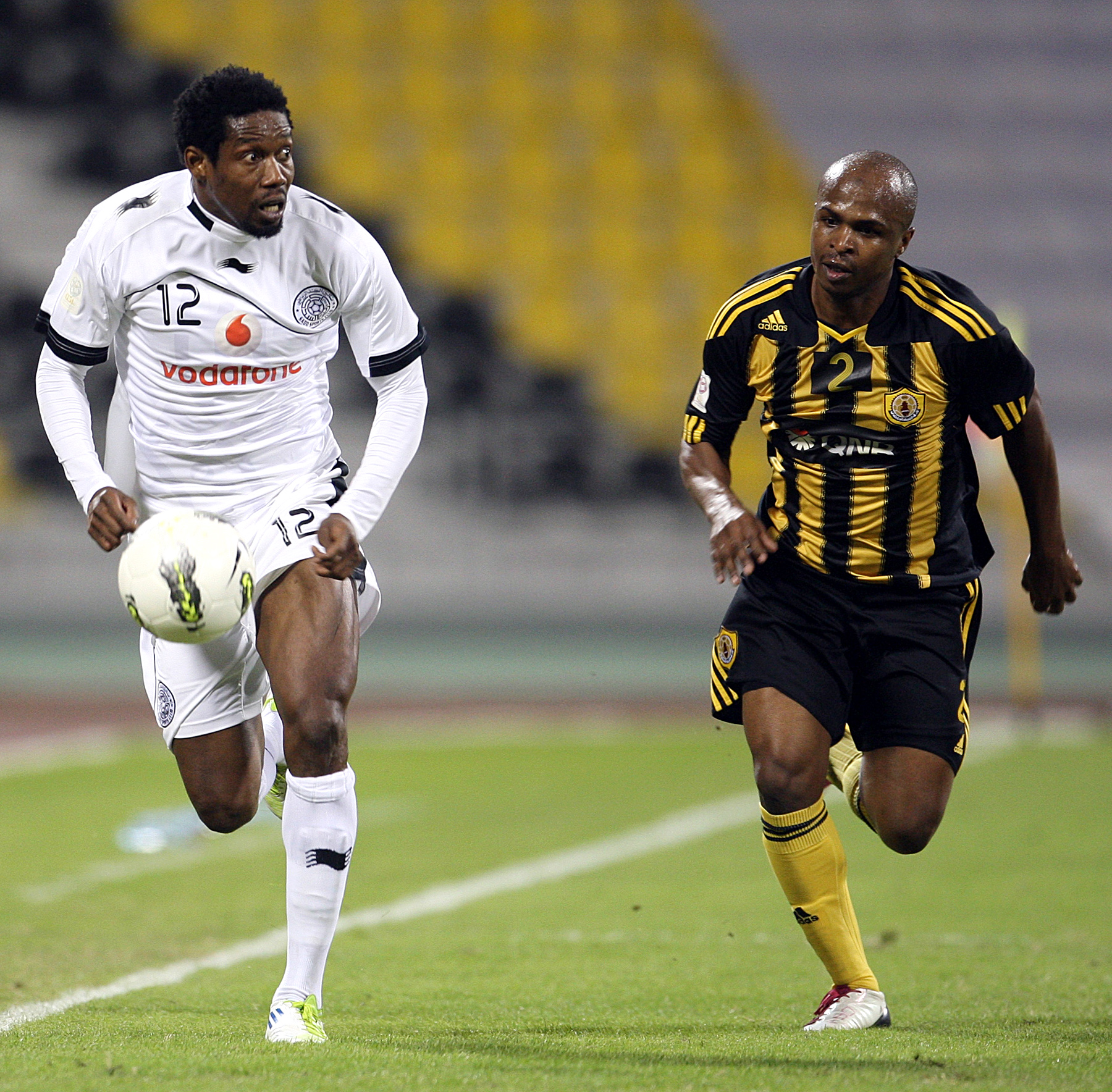 Al Sadd's Abdul kader Keita, left, and Qatar SC's Salman Musabah runs with the ball during their Qatar Stars League match.